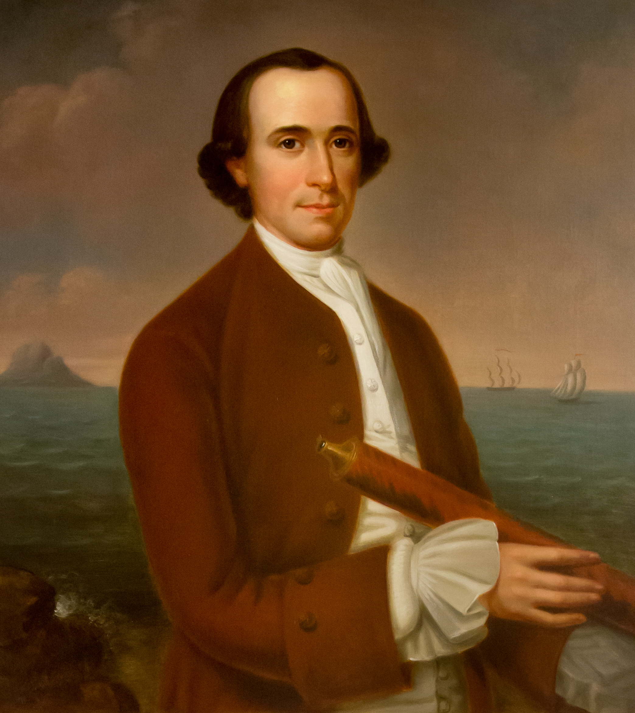 John Wanton RI Colonial Governor. Rhode Island State House collection.